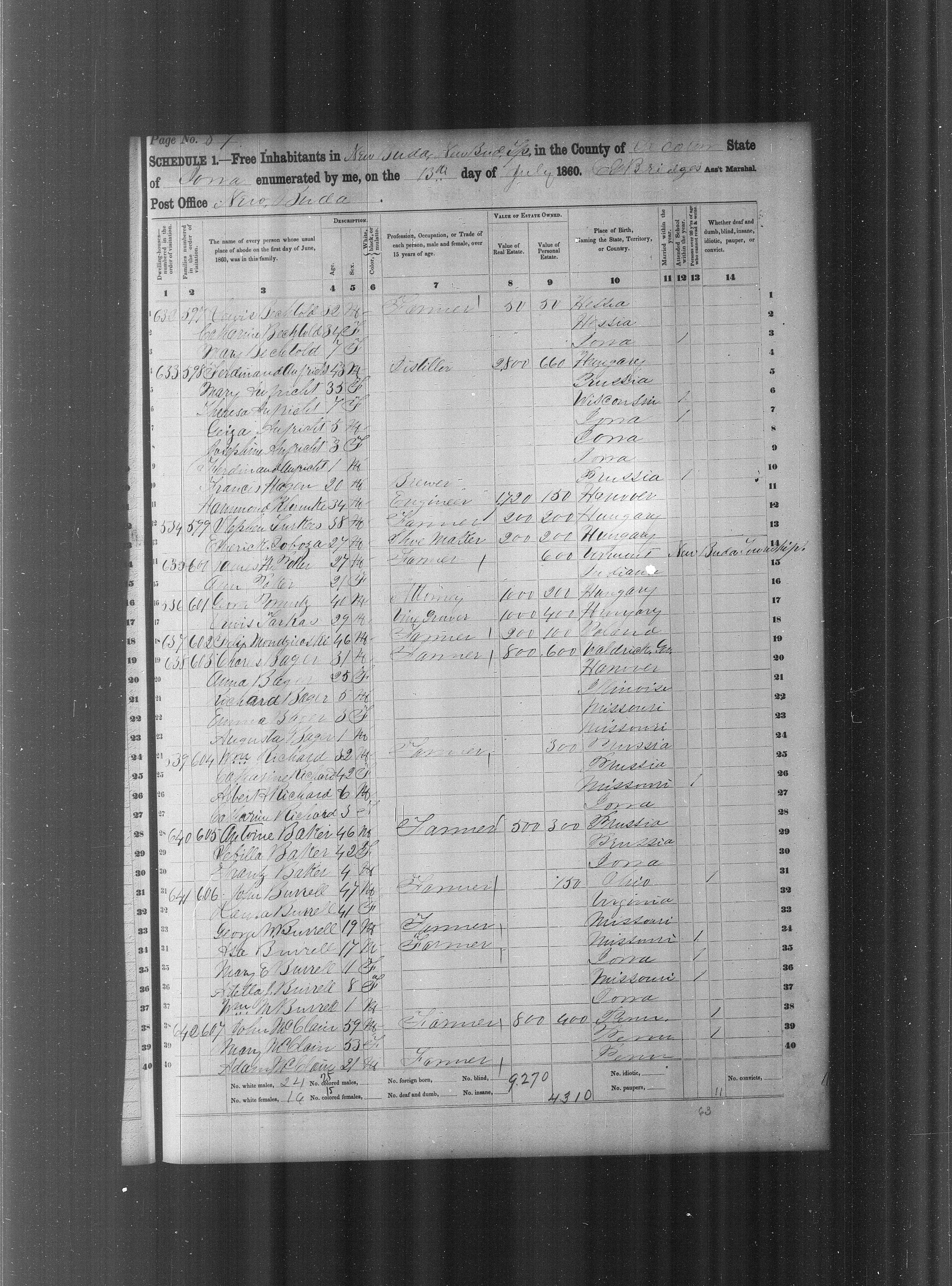 George Pomutz 1860 US Census, Decatur, Iowa